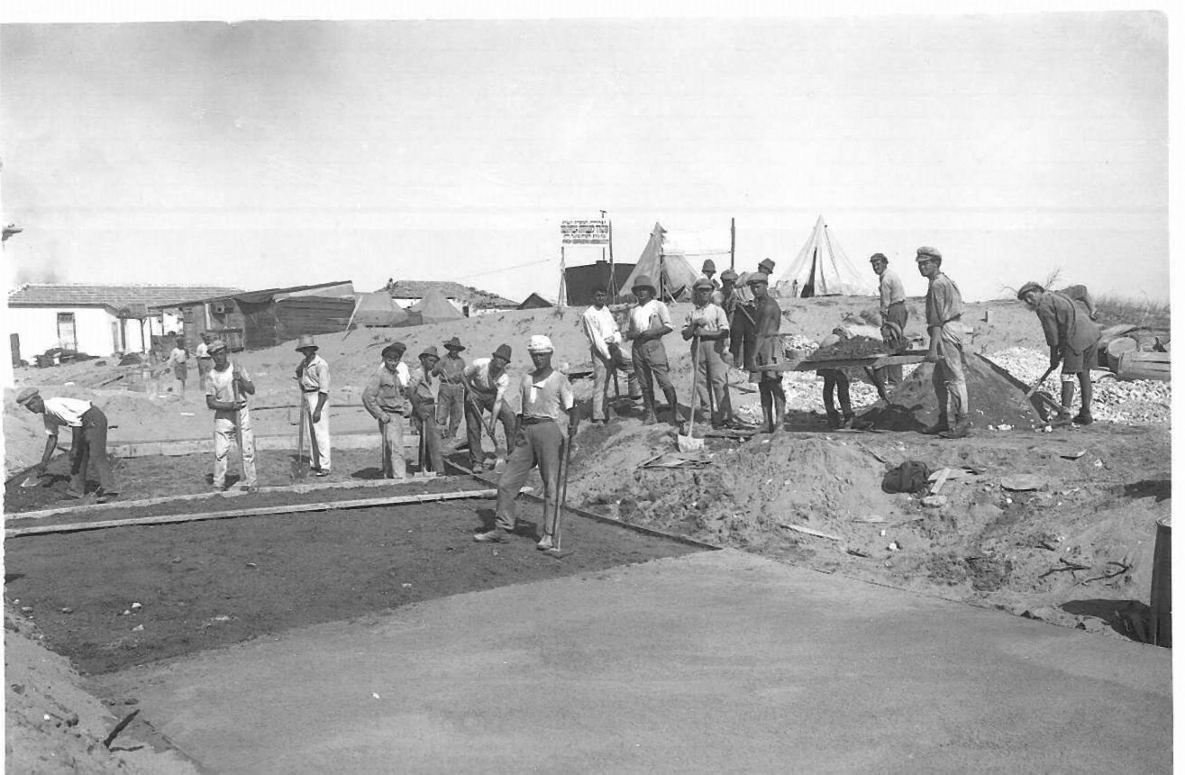 Construction workers in Nordia neighborhood, Tel Aviv